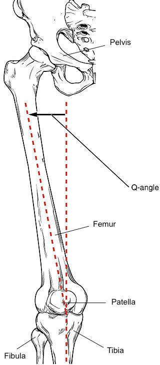 Labelled image of leg with Q angle